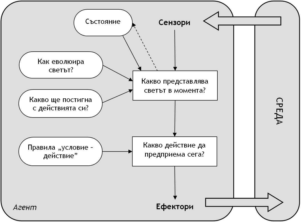 Diagram of a model-based reflex intelligent agent. In Bulgarian.